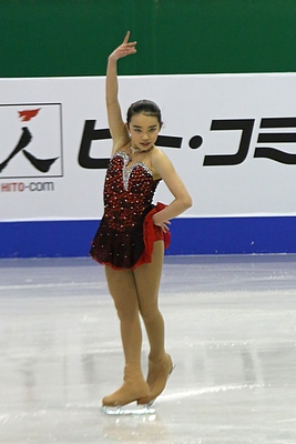 Photos – Junior World Championships 2014 – Ladies (Karen Chen)